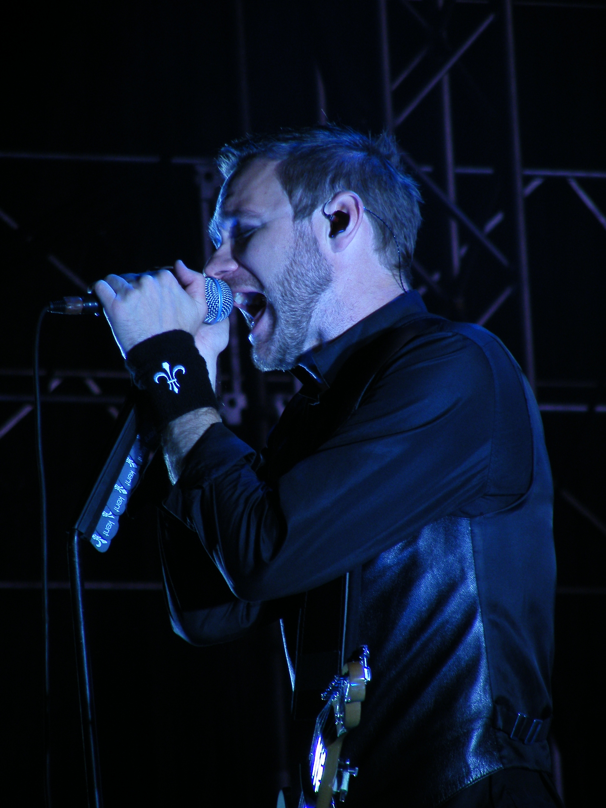 Joakim Berg, frontman of Swedish rock band Kent, performing in Norrköping, Sweden 080801.